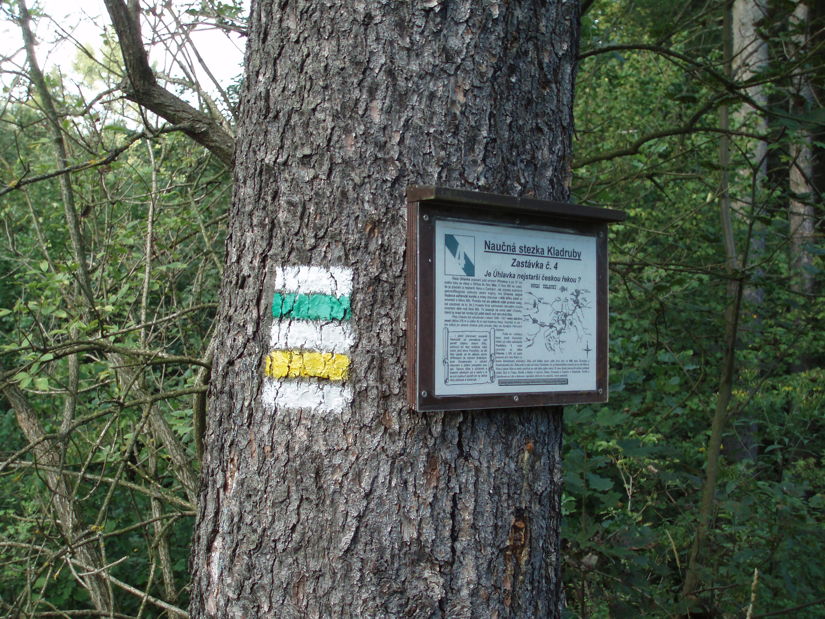 Kladruby Educational Trail, Tachov District, Czech Republic.